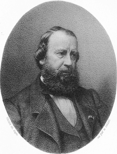 French painter Constant Troyon (1810–1865) by Eugène Louis Pirodon (1819-1882) after a photograph by Étienne Carjat (1704-1788)